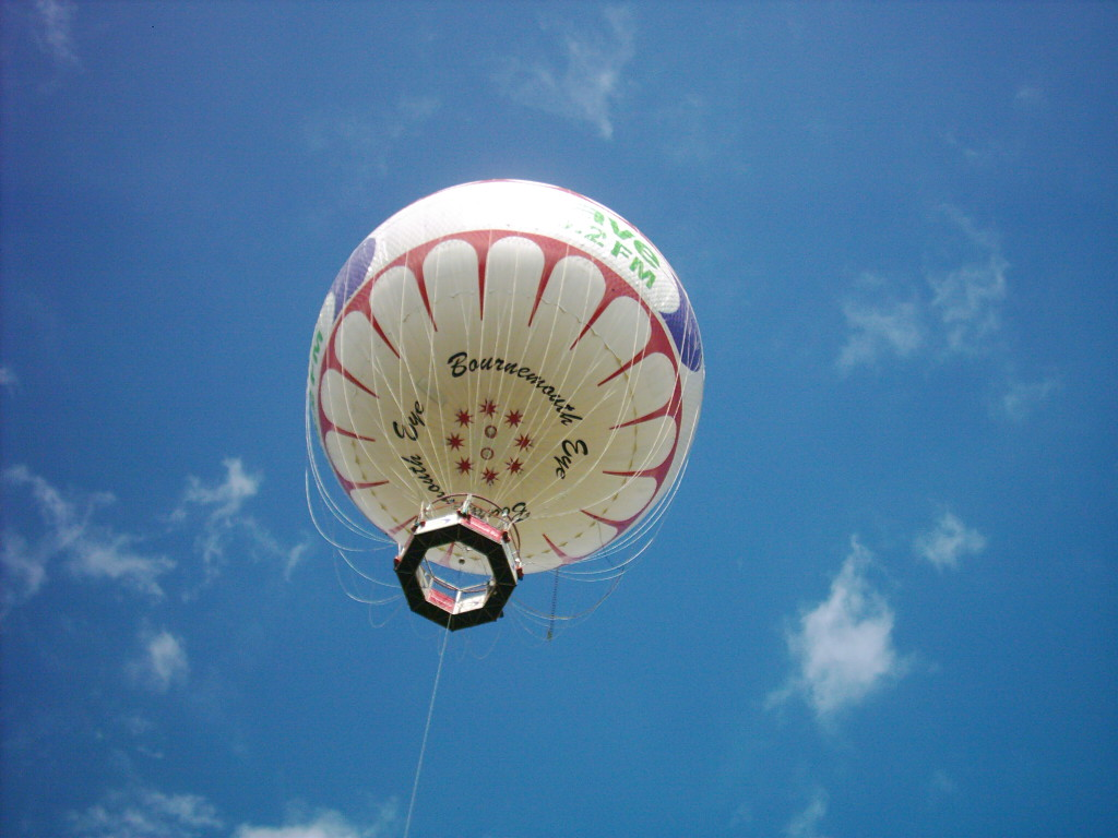 Bournemouth_Eye.JPG